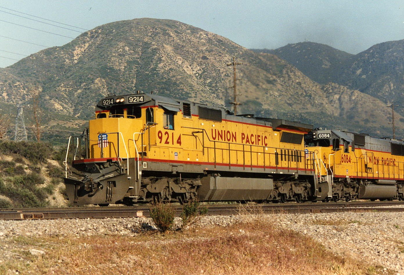 Union Pacific Railroad 9214, a GE Dash 8-40C, leads an eastbound train up California's Cajon Pass on May 10, 1991.